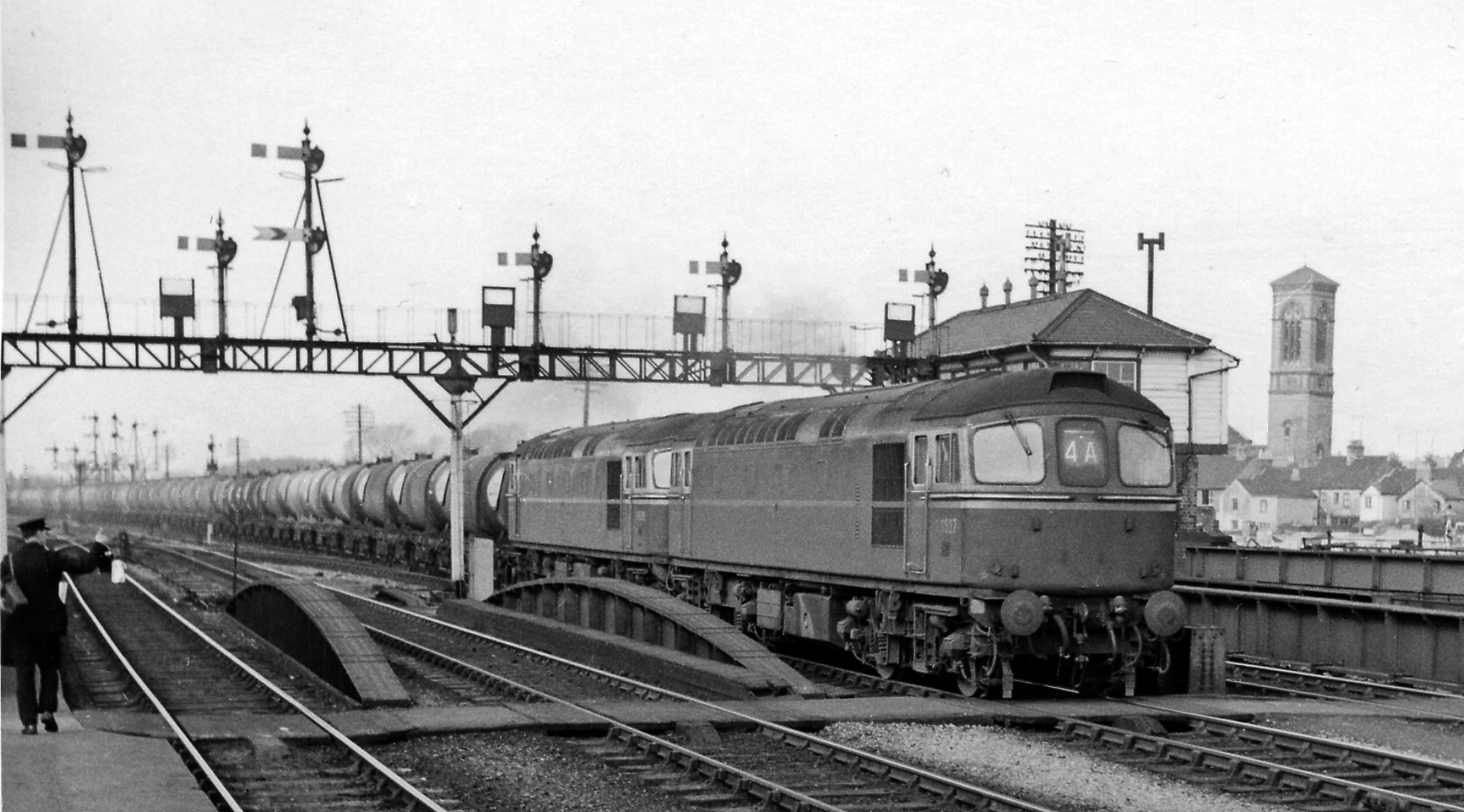 Up oil empties entering Oxford with two diesels. View northward from the Down platform at Oxford station; ex-GWR main North-South line to Birmingham etc. The train exemplifies the radical transition in the mid-20th century to road transport using internal combustion engines. It is one of the massive trains introduced in the 1960's to move petrol from the Esso Oil Refinery at Fawley near Southampton to a major distribution facility in Birmingham at Bromford Bridge: this is a train of empty tank wagons returning to Fawley, at that time via Didcot, Winchester and Southampton. The locomotives are Nos. D6527 + D6505, of the Type 3 1,550hp Bo-Bo (later Class 33) introduced in 1/60 and built by Birmingham Carriage & Wagon Co.